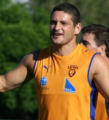 Brendan Fevola at a Brisbane Lions pre-season training session. January 2010.